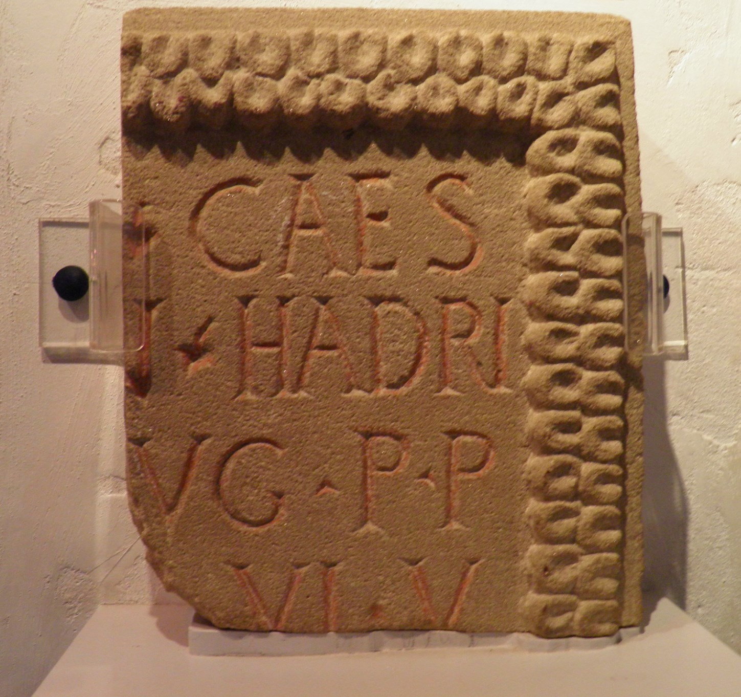 Building inscription from one of the four main gates at Wallsend, (the work) of the Emperor Caesar Trajan Hadrian Augustus, father of this country. Sixth Legion Victrix (built this), Wallsend